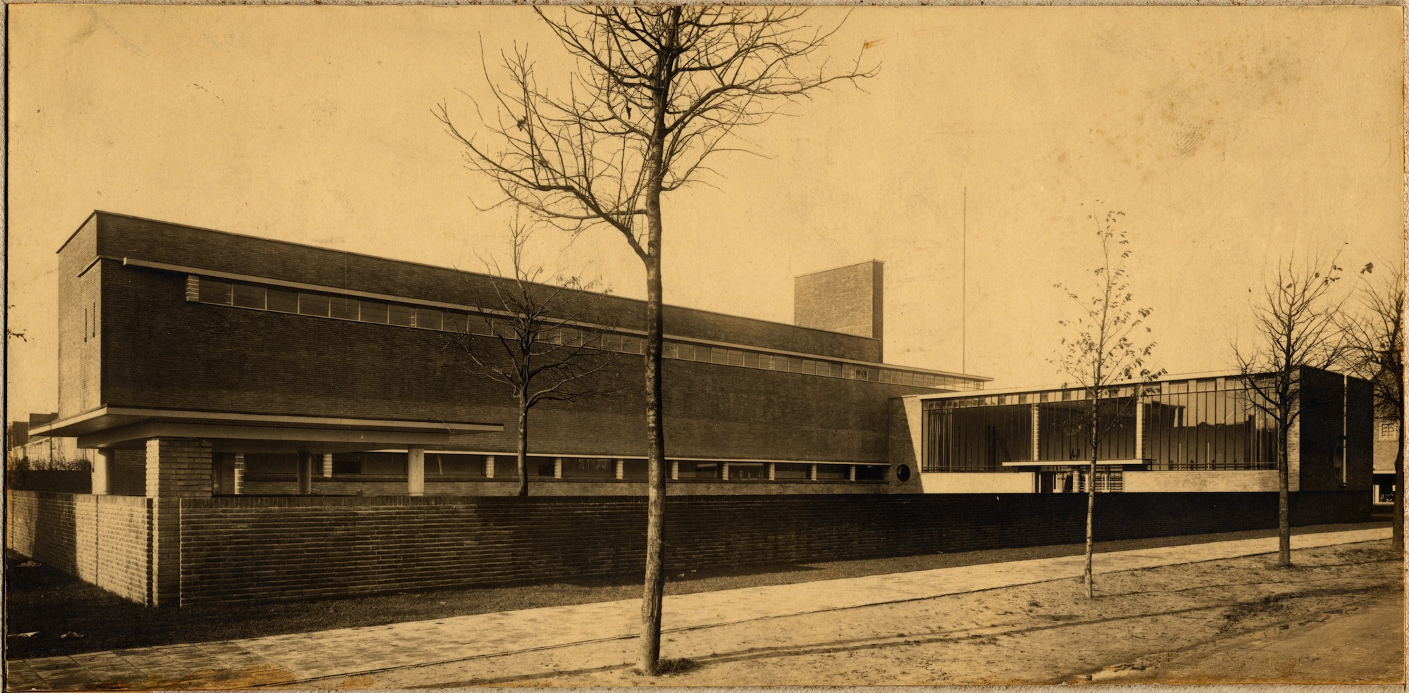 The Johannes Calvijn School was designed by Willem Dudok in 1929. The picture is taken in 1930 from the Jan van der Heydenstraat in north/west direction. Front left; the Bicycle Storage